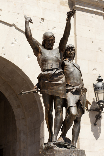 Avinguda Blondel; Lleida; Catalunya, Lleida; Spain; ; ; Cultural heritage; Cultural heritage|Sculpture; Europe; Europe|Spain|Lleida; photo: Paul M.R. Maeyaert; ; Ref.: PM_106756_E_Lleida